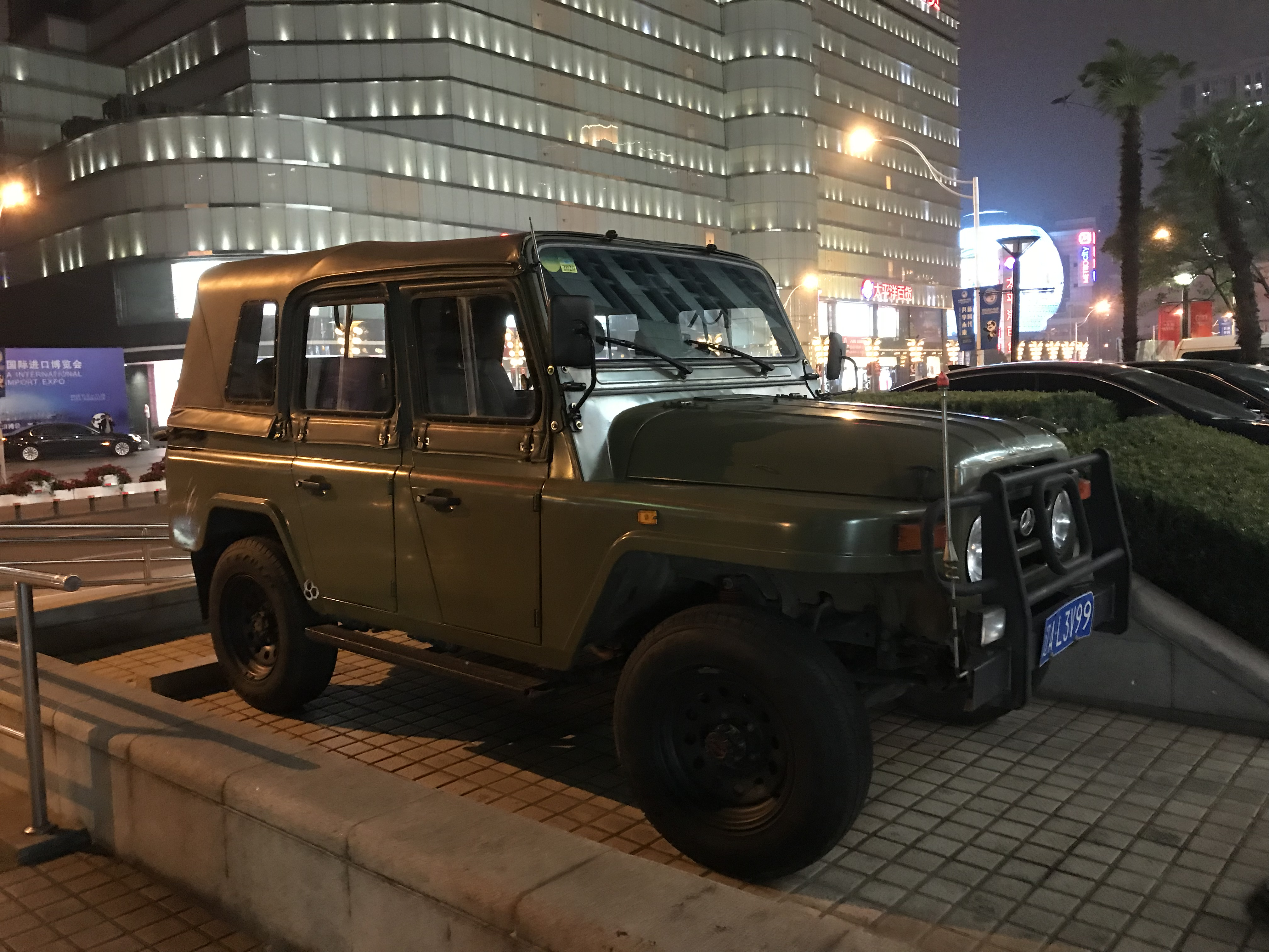 BAIC BJ212 front